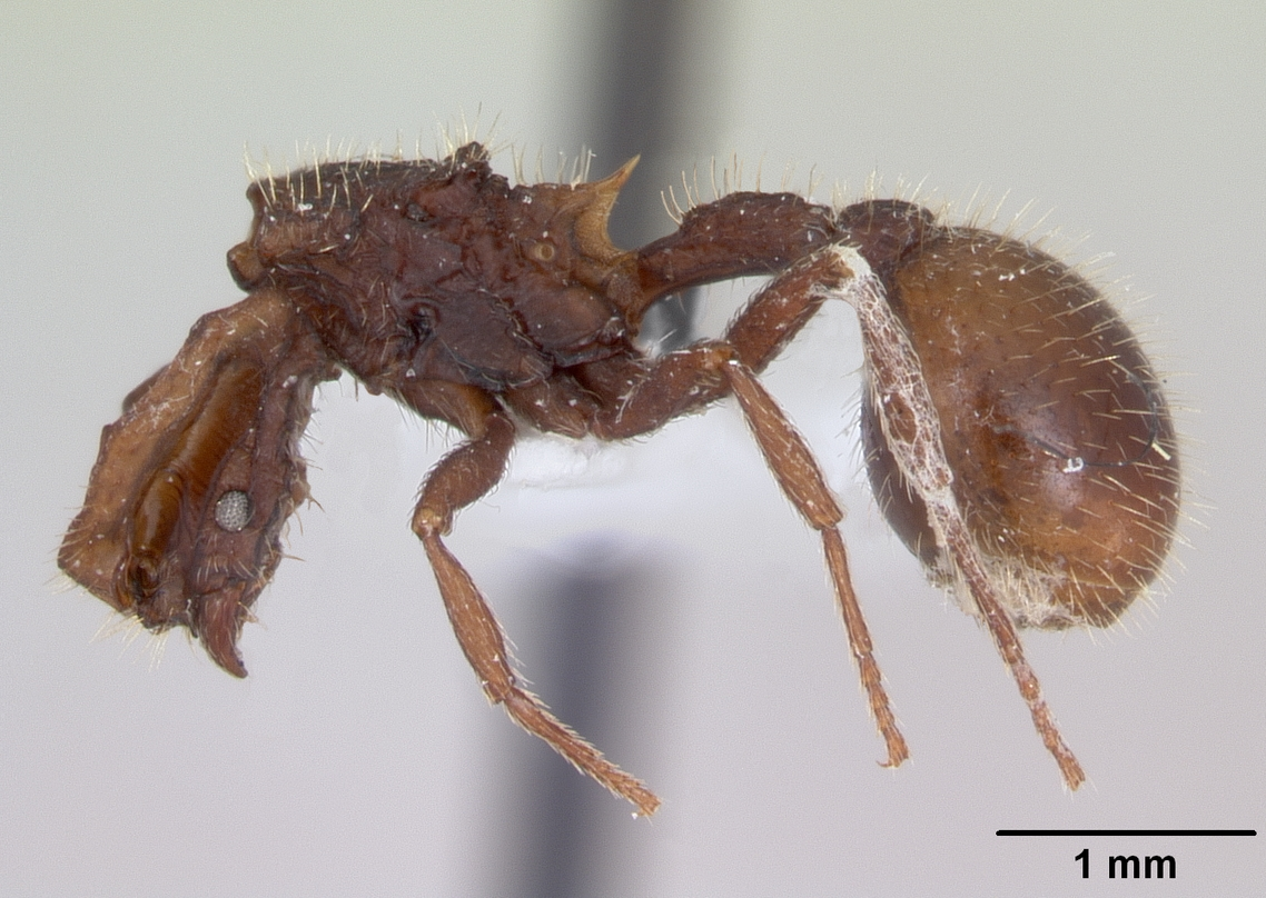 Profile view of ant Blepharidatta conops specimen casent0173884.